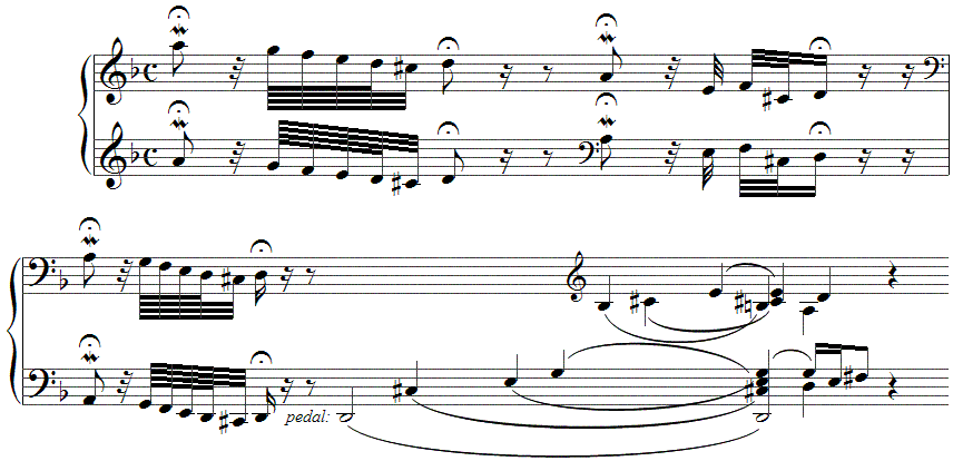 Score of opening notes of J. S. Bach's Toccata and Fugue in D Minor. Still needs work, to sort out note order and slurs in last notes. Created by Opus33 using Sibelius software.